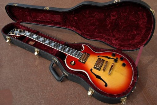 Guitar Gibson Les Paul Custom Florentine Custom Shop